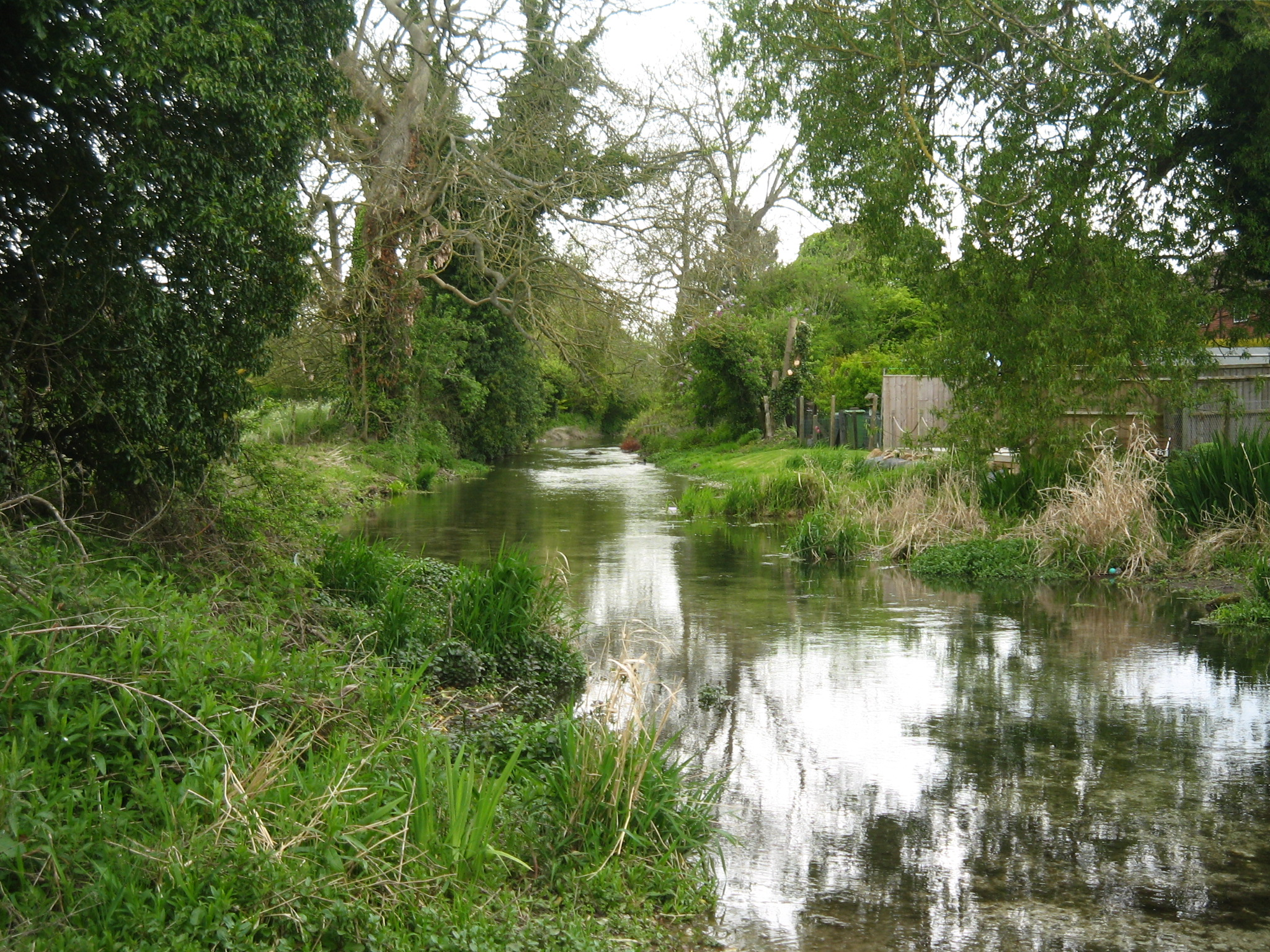 The River Lambourne leaving Lambourne, Berkshire